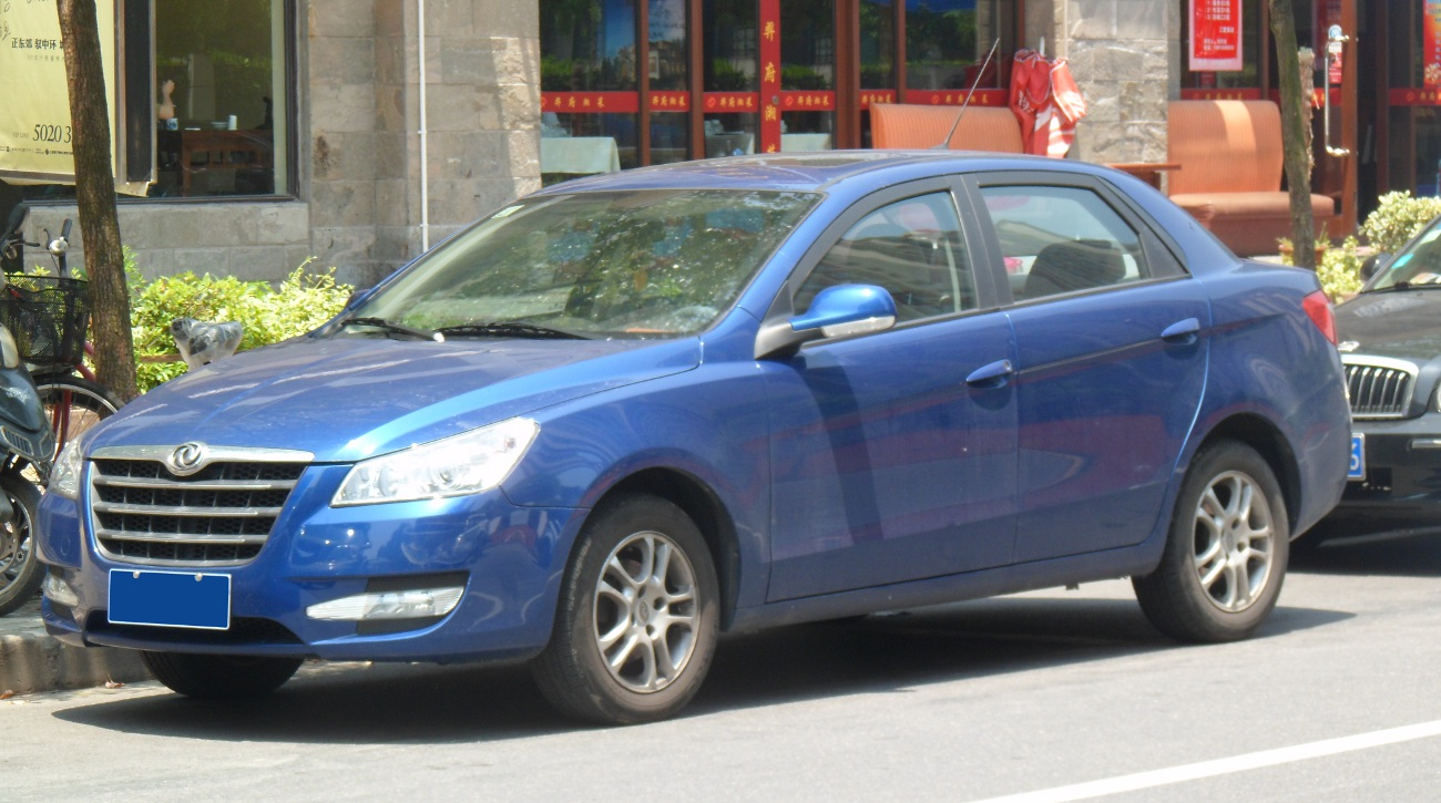 Dongfeng Fengshen S30 photographed in Shanghai, China.